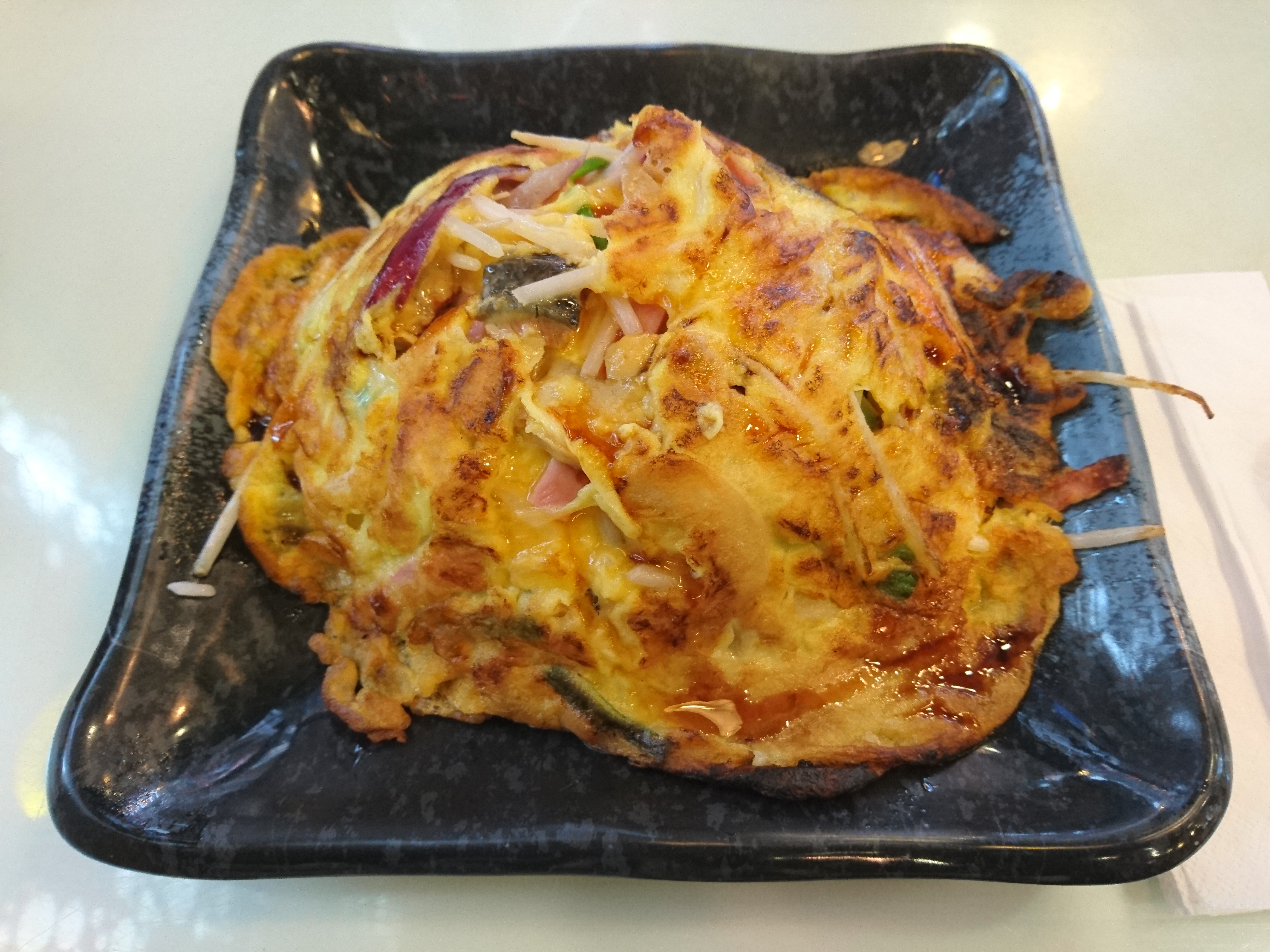 Egg Foo Young in Hong Kong